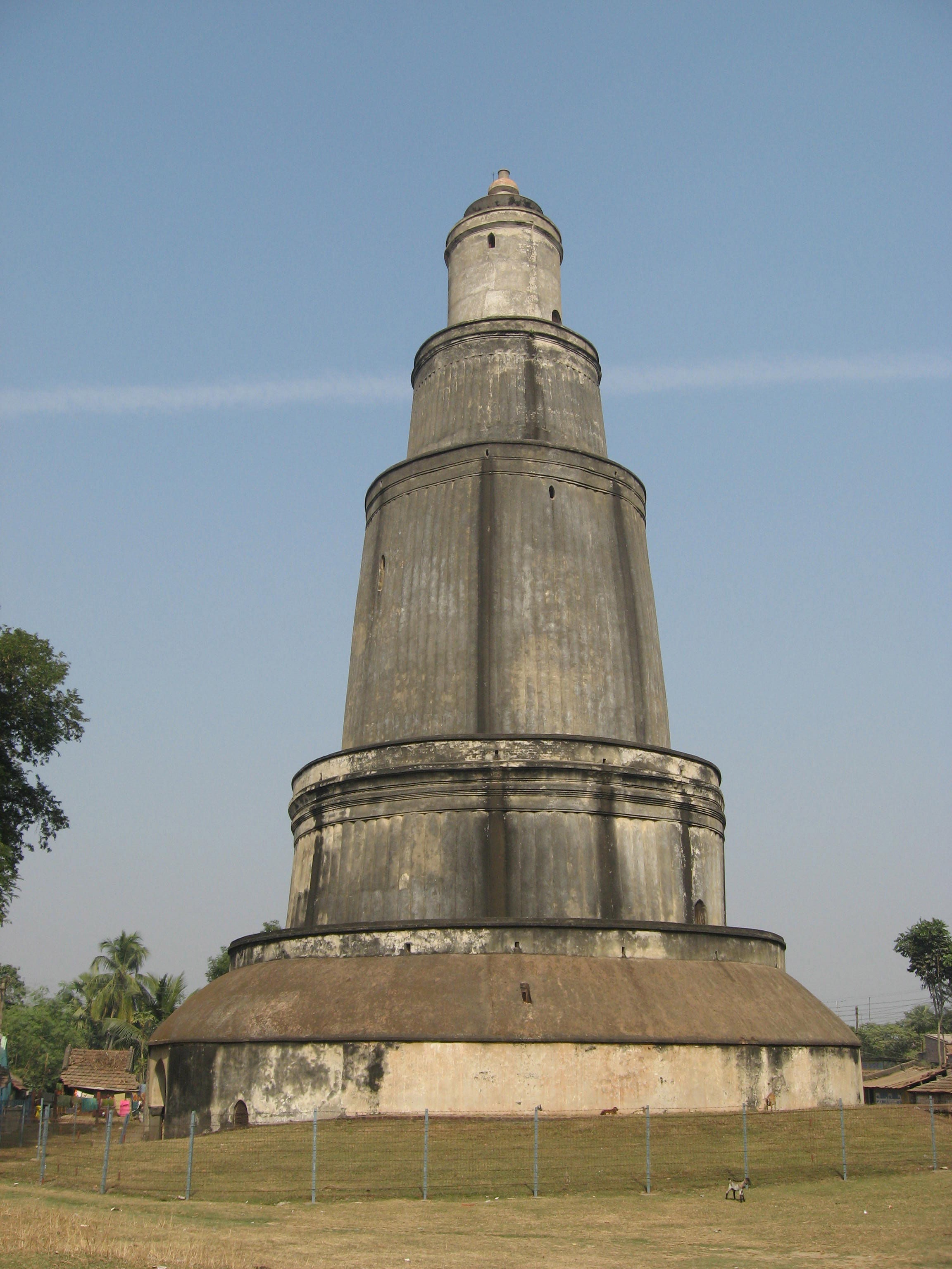 (Possible built in 1340 A.D.) Built of bricks the minar at Padua Hooghly was raised possibly both as a tower of victory and a minar attached to the adsacent mosque. Raising to a height of 38.10 Meter diminishing by stages. It has five storeys with flutings in the lower three. The entrance was provided with a stone door frame flanked on either side by carved stone pillars of some hindu temples.